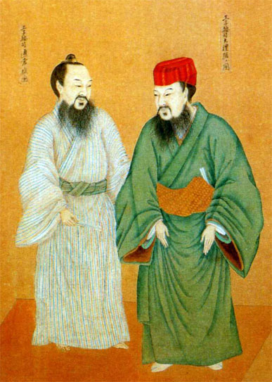 The dress of Ōji and Aji in the Ryukyu Kingdom. Left:an ordinary dress, right:a court dress.